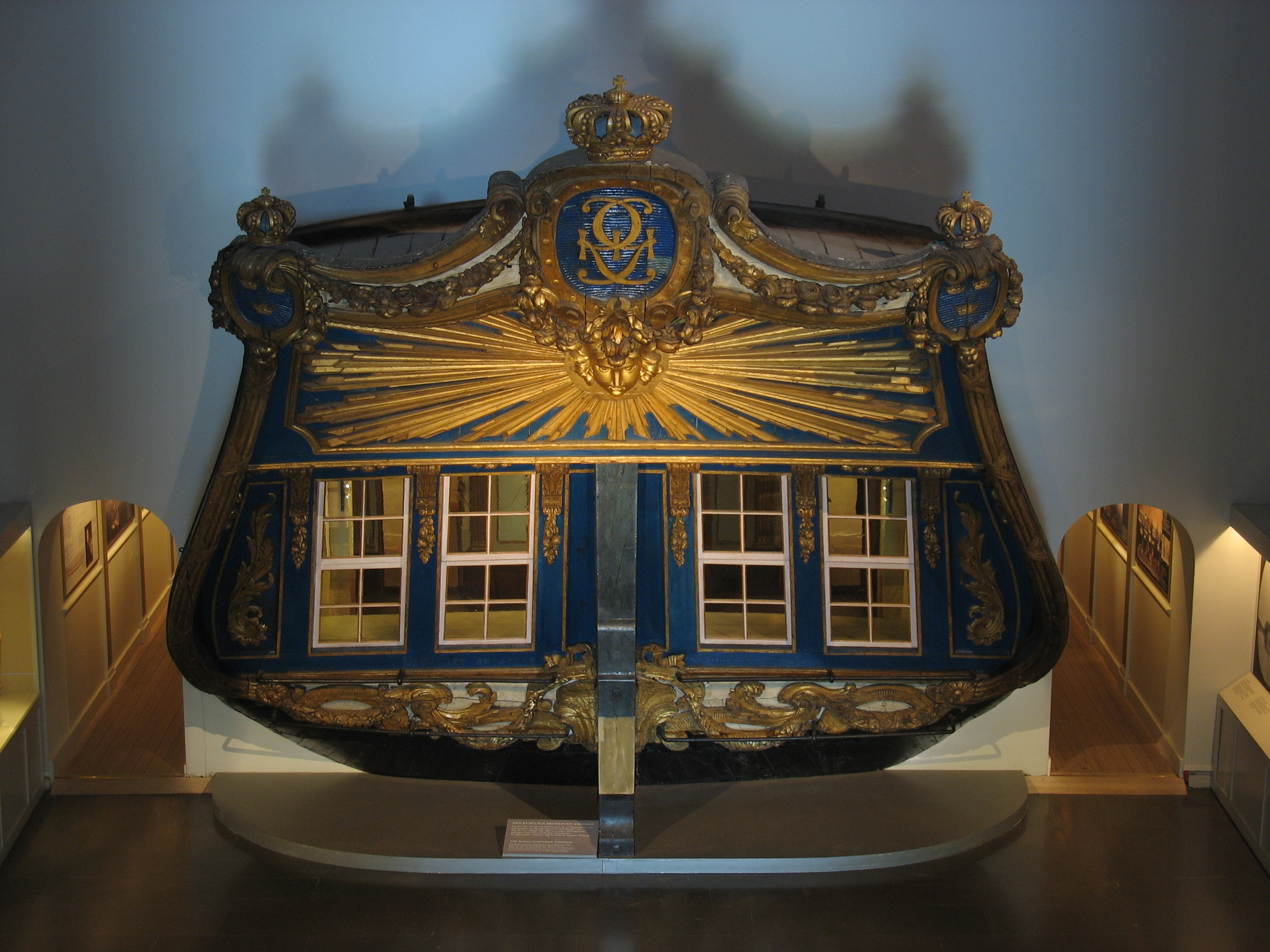 The preserved stern of the Amphion, the royal yacht of Swedish king Gustav III at the Maritime Museum in Stockholm.